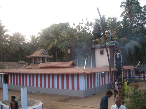 Vedisasthan Kovil, Marthandam, Tamil Nadu